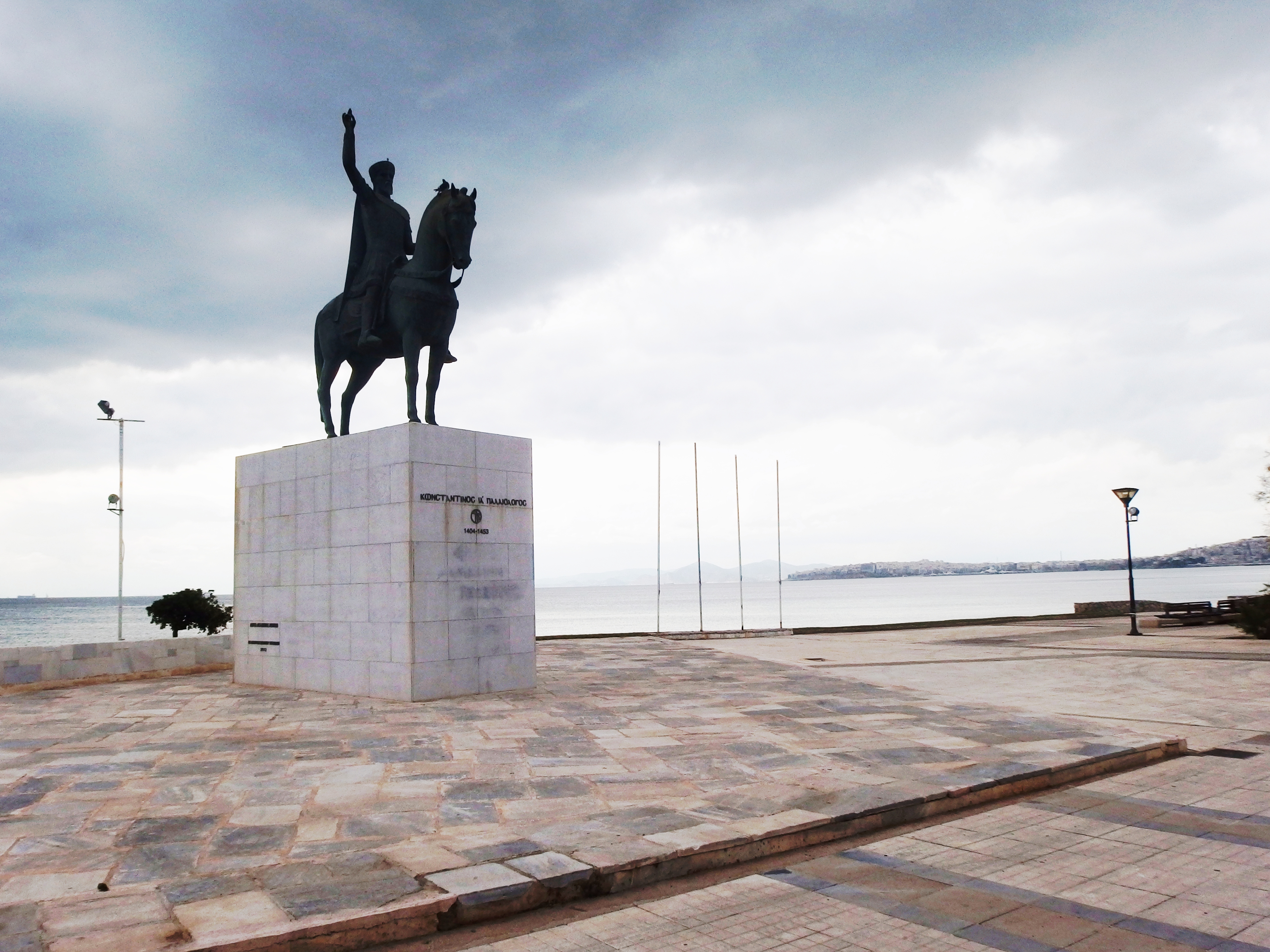 Paleo Faliro, Attica, Greesce. Monument to Constantine XI Palaiologos.